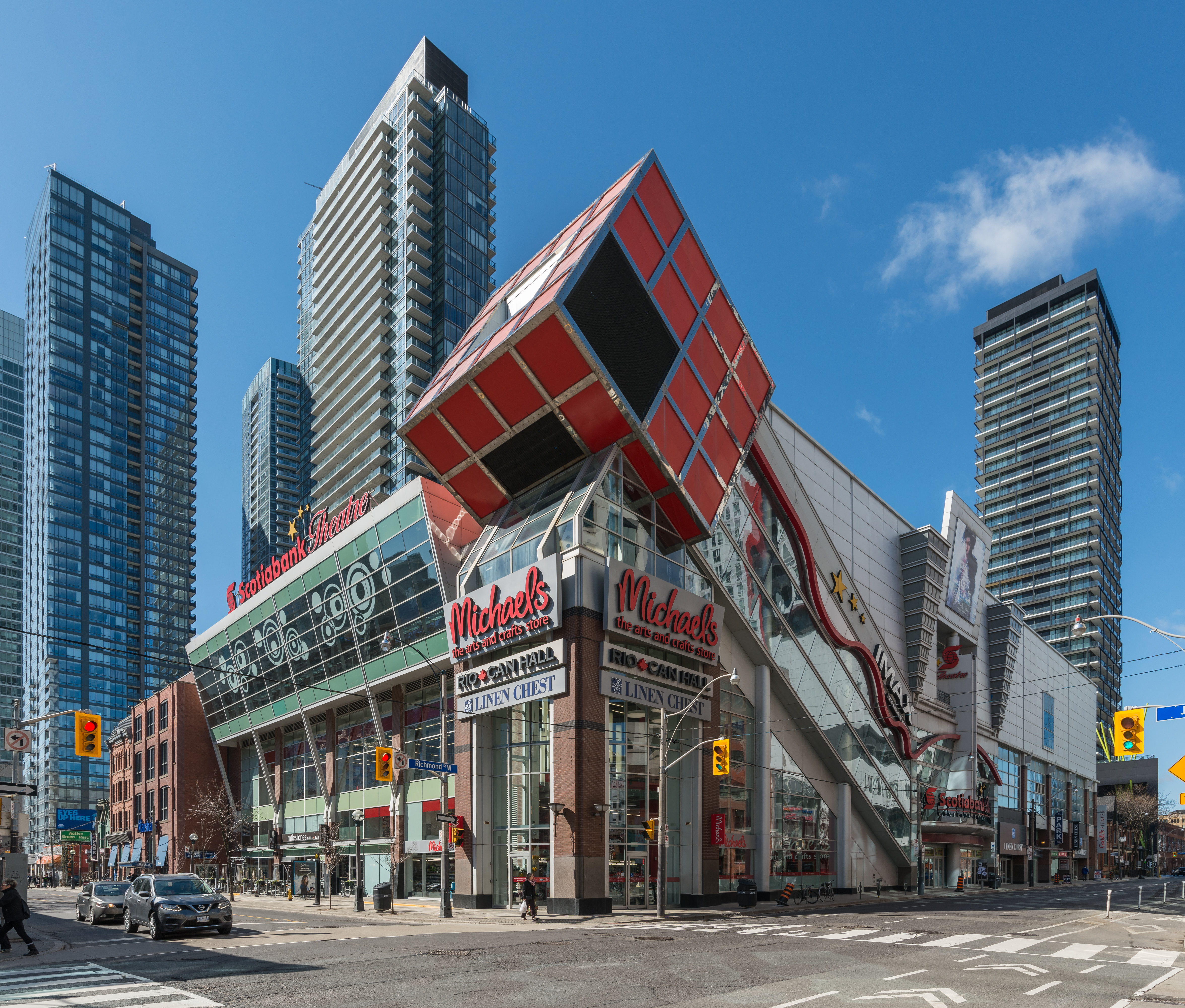 A north view of Scotiabank Theatre, Toronto